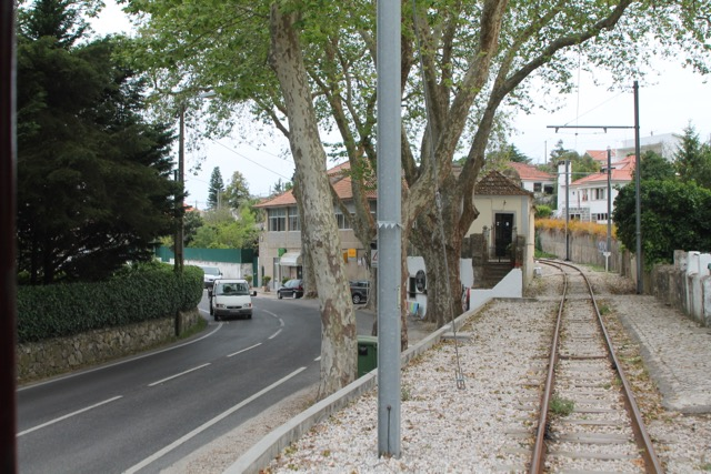 Sintra tram-line in Galamares